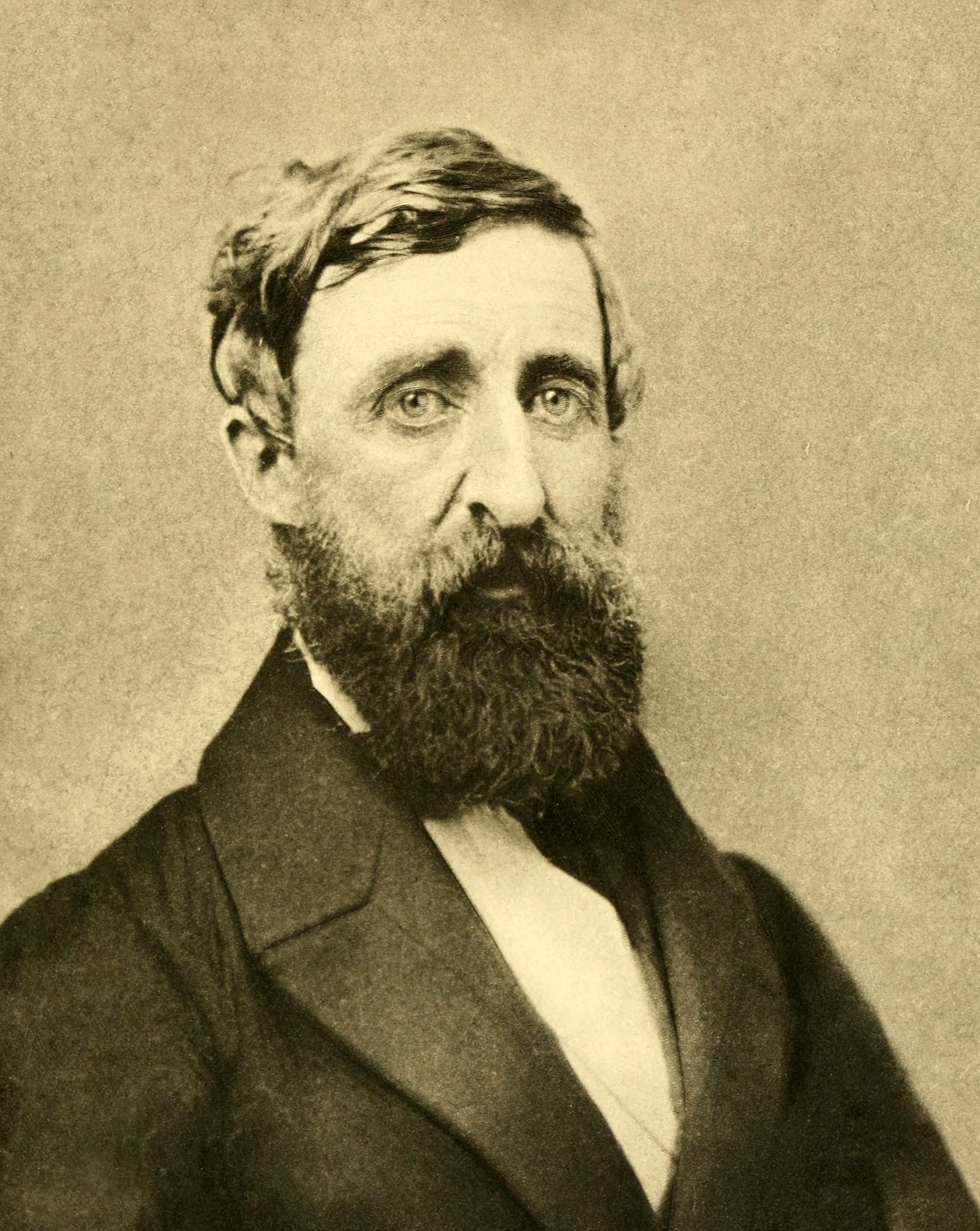 E.S. Dunshee took the last photographs of Thoreau — two slightly differing ambrotypes — on August 21, 1861, in New Bedford, Massachusetts. Late in the nineteenth century, the Concord Antiquarian Society (predecessor of the Concord Museum) held both copies of the Dunshee ambrotype, one a gift from Walton and Anna Ricketson (children of Thoreau’s New Bedford friend Daniel Ricketson), one from George Tolman, who had received it from Sophia Thoreau. The Sophia Thoreau/George Tolman copy disappeared from the society in 1910 and resurfaced at the auction of the Stephen Wakeman collection in 1924. Its present location is unknown.